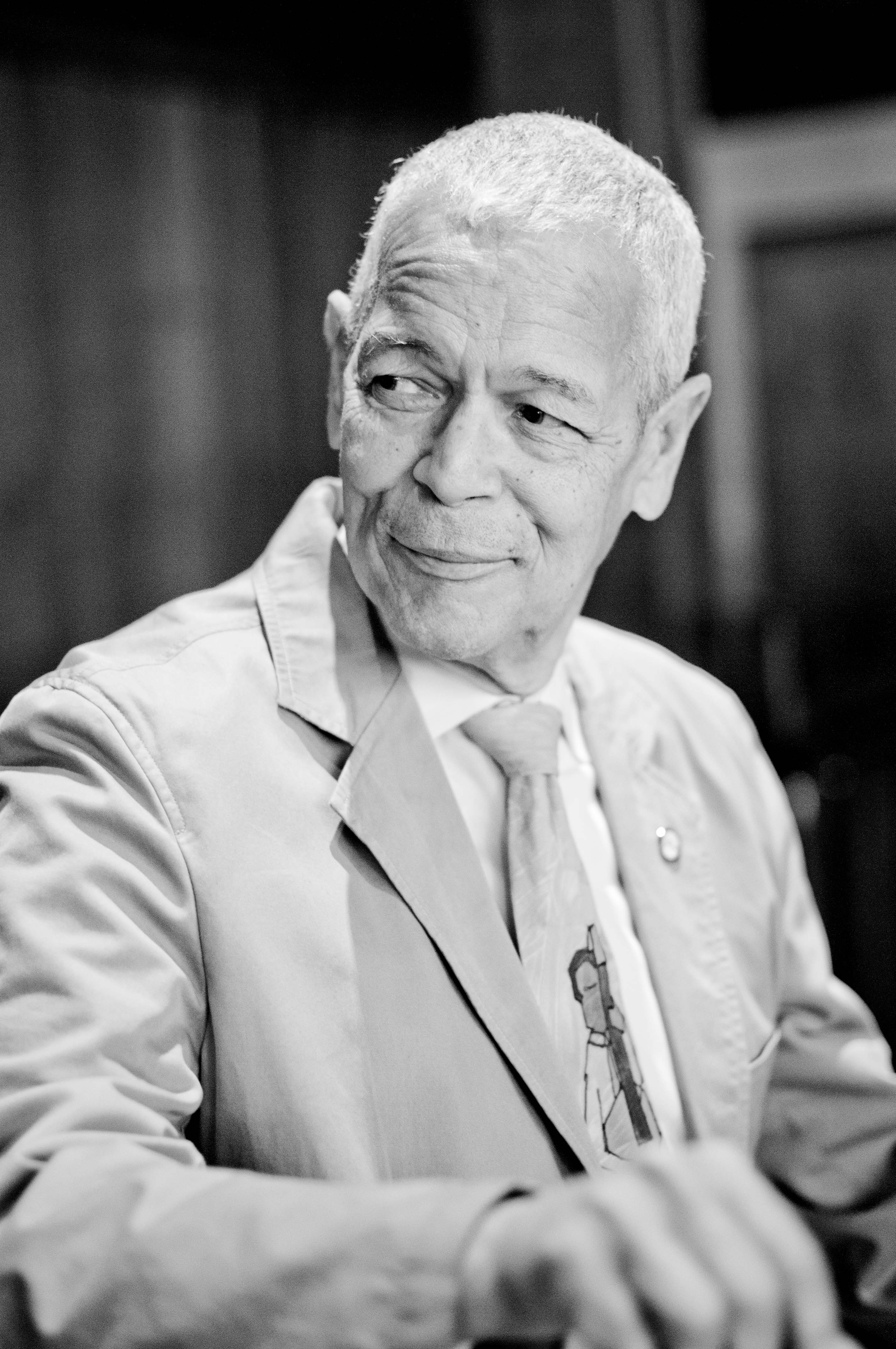 A portrait of Julian Bon by Eduardo Montes-Bradley